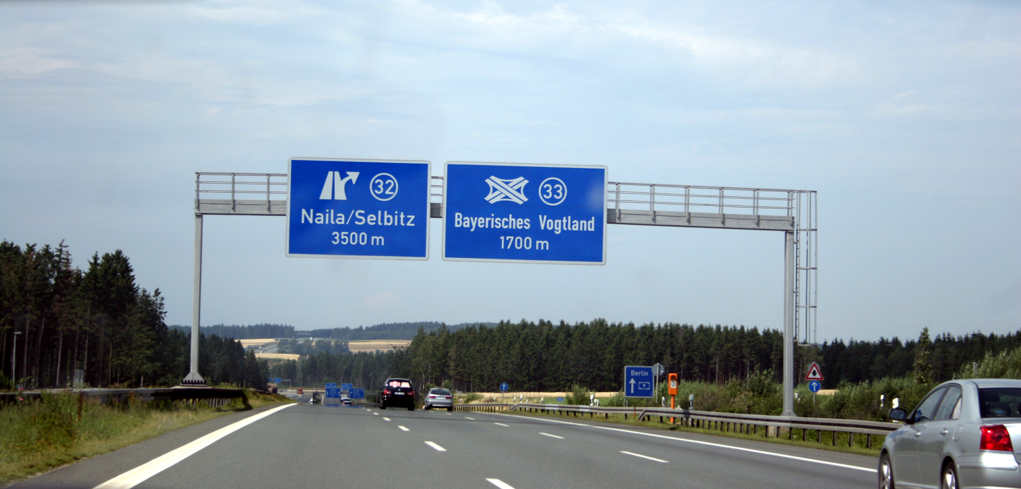 Interchange Bayerisches Vogtland, Bundesautobahn 9 in Bavaria, Germany.